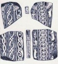 image